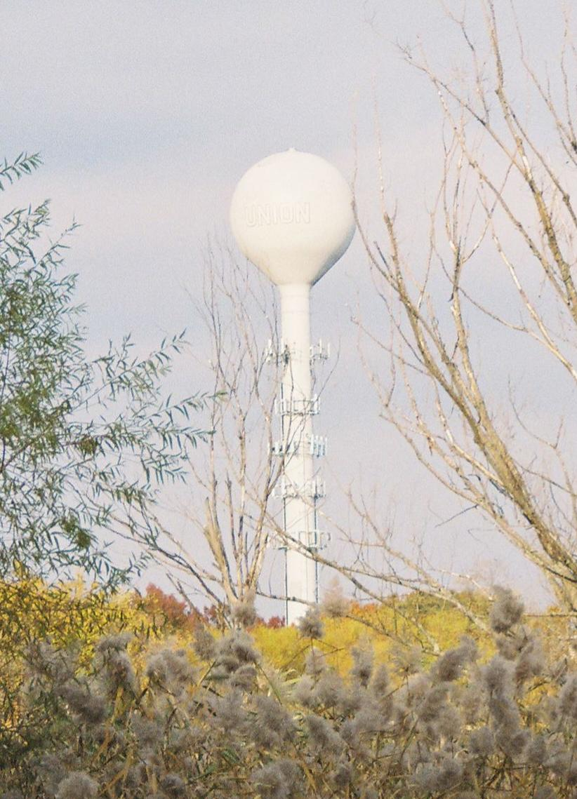 Photograph of the Union Water Sphere from Kawameeh Park in Union Township, Union County, New Jersey, United States. The Union Water Sphere, built in 1964, is the tallest water sphere in the world, standing 212 feet (~65 m) tall and holds 250,000 gallons (946,353 liters) of water. It now also serves the area as a cellular telephone tower.